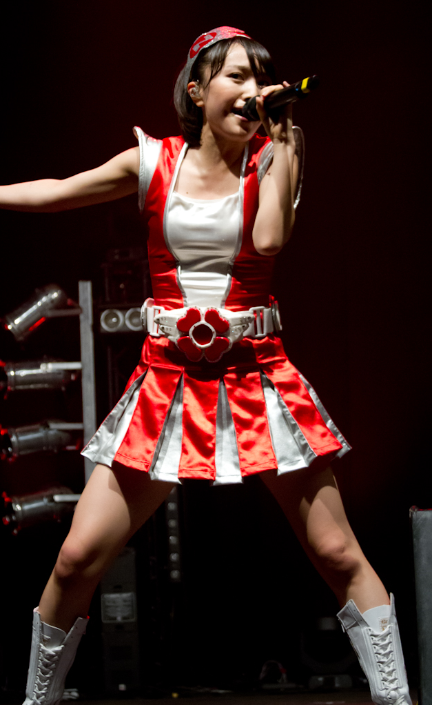 This image has been losslessly cropped from the original that was posted to Flickr.